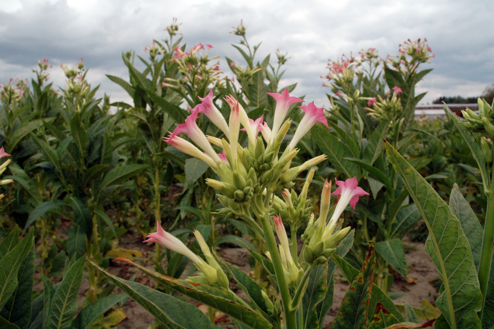 Tobacco plant flowers in Poland